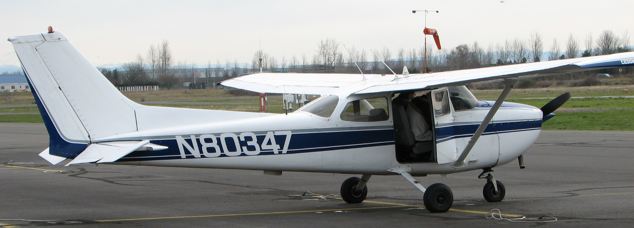 Cessna 172M (N80347)